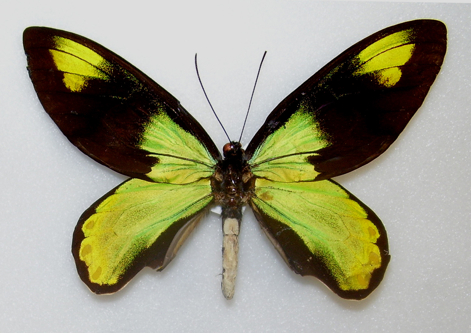 Ornithoptera victoriae Male, upperside.Guadalcanal, Solomon Islands